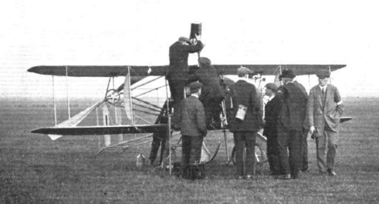 Alec Ogilvie's Wright Model R being refuelled at the Eastchurch Gordon Bennett Trophy in summer 1911.